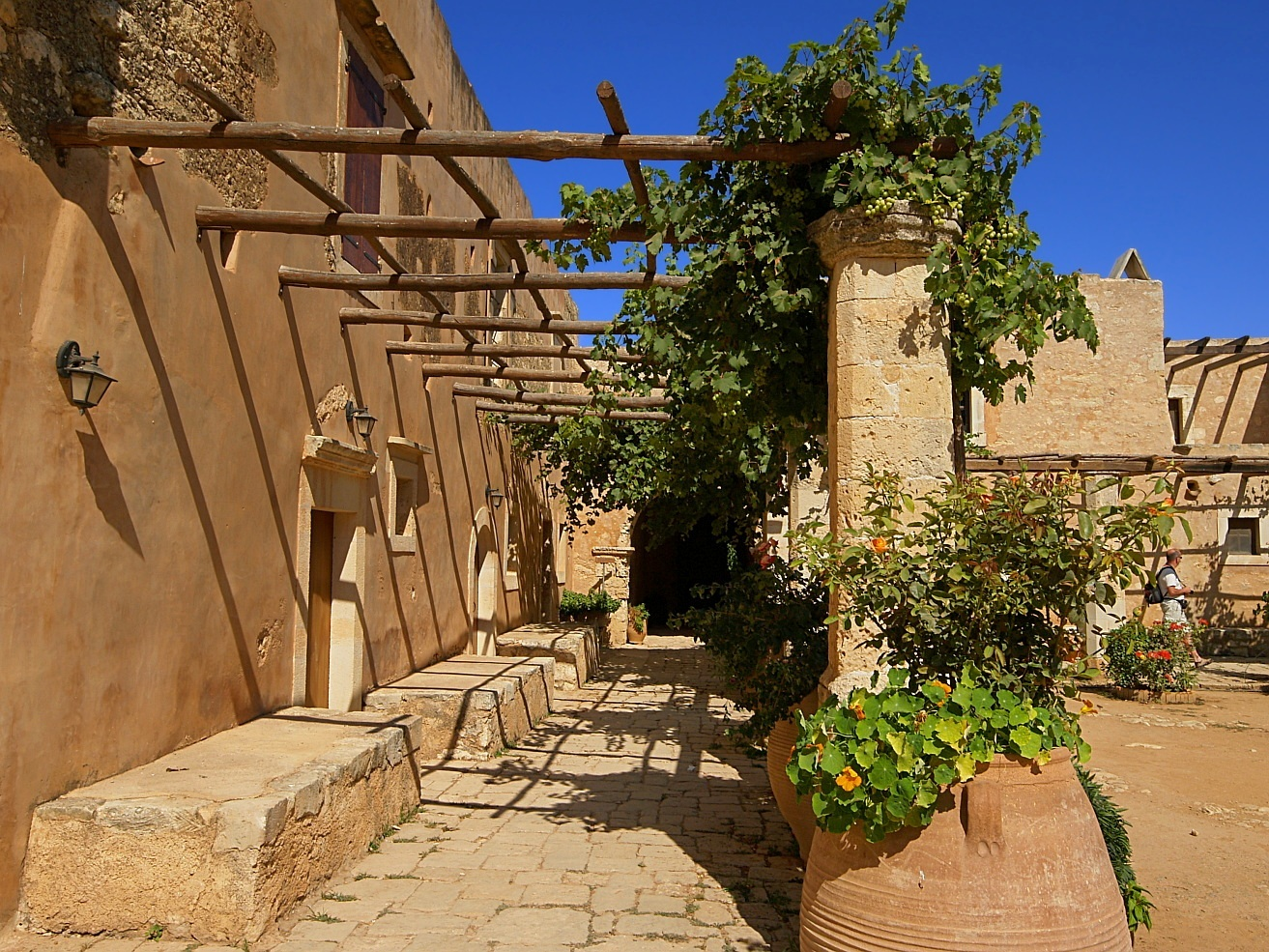 Arkadi Monastery court